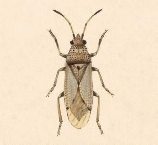 Biologia Centrali-Americana - Cymus guatemalanus Cut-out from original (Biologia Centrali-Americana (8272543166).jpg) shown below